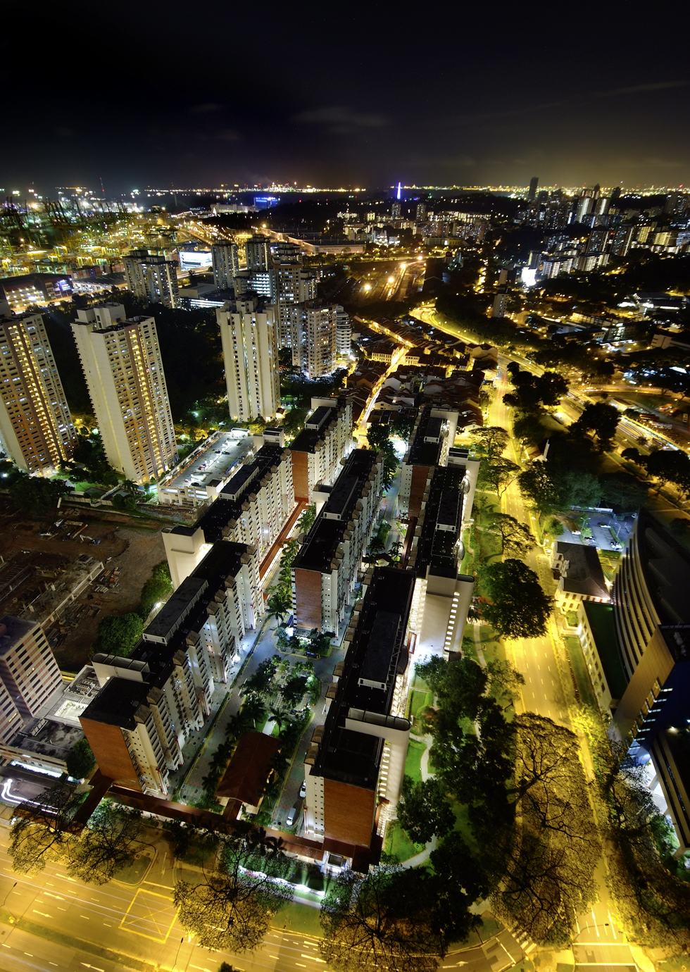 A view from the sky bridge of The Pinnacle@Duxton, Singapore.